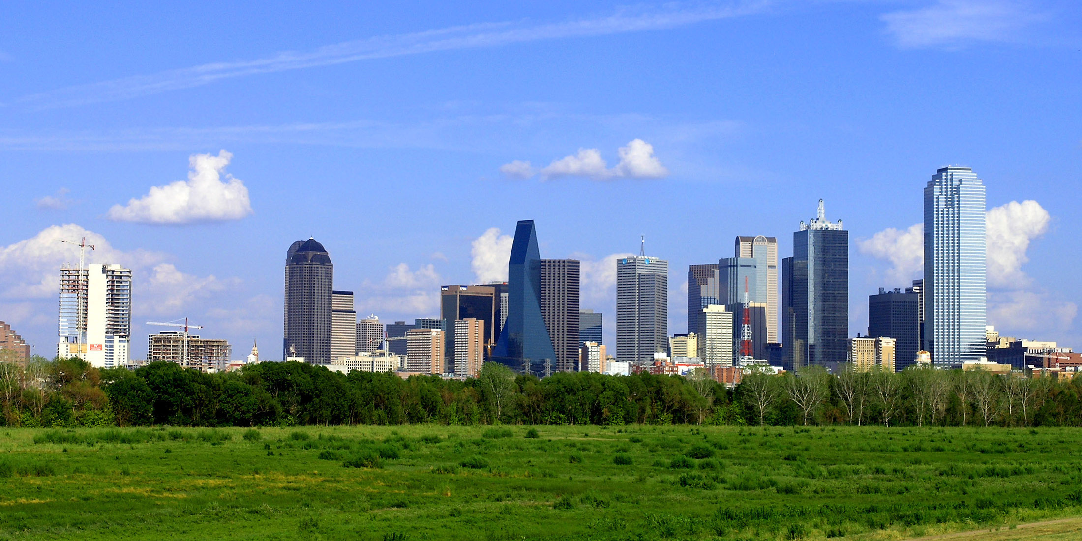 The downtown Dallas, Texas (USA) skyline from a levee along the Trinity River. Facing southeast.